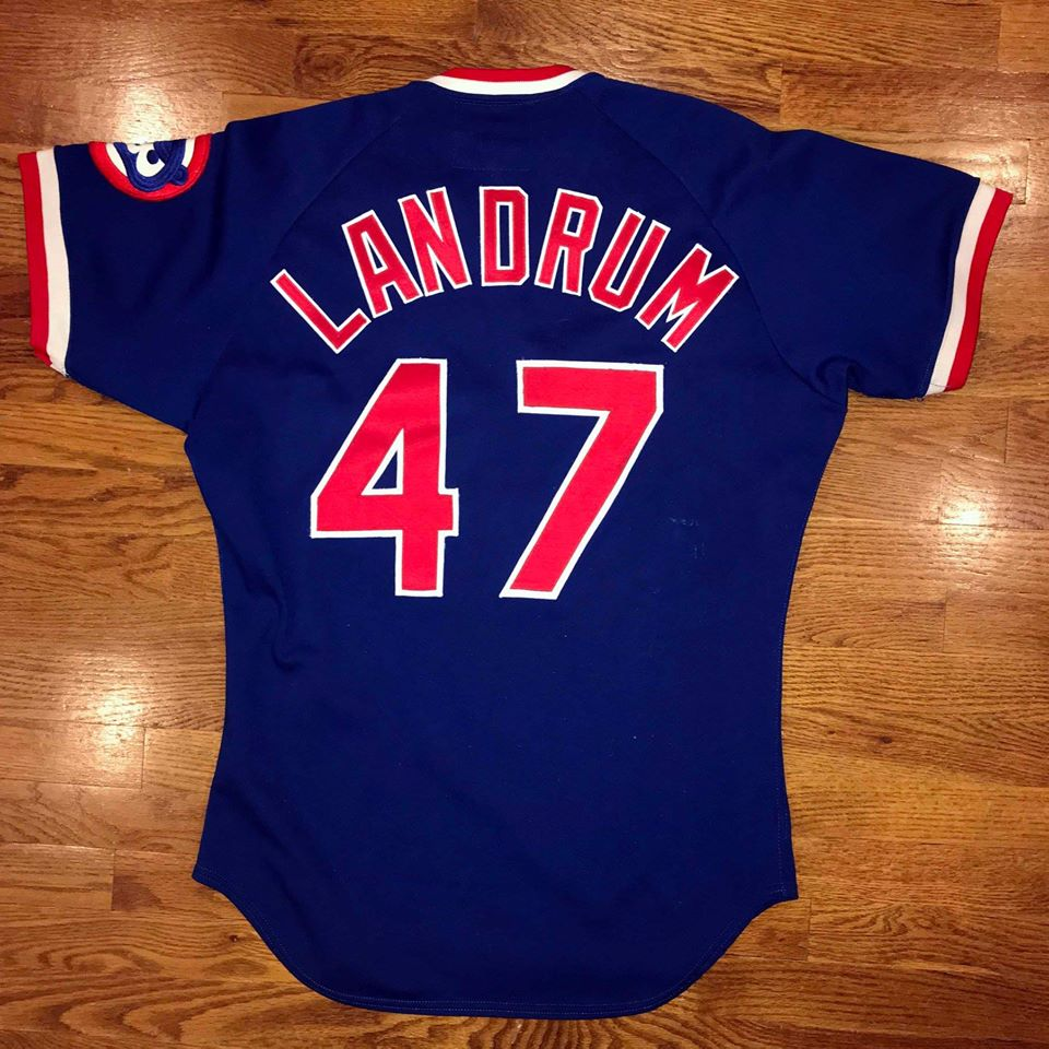 1988 Chicago Cubs #47 Bill Landrum game worn home jersey restored and photographed by William F. Henderson who may be contacted through his website at thedream.shop